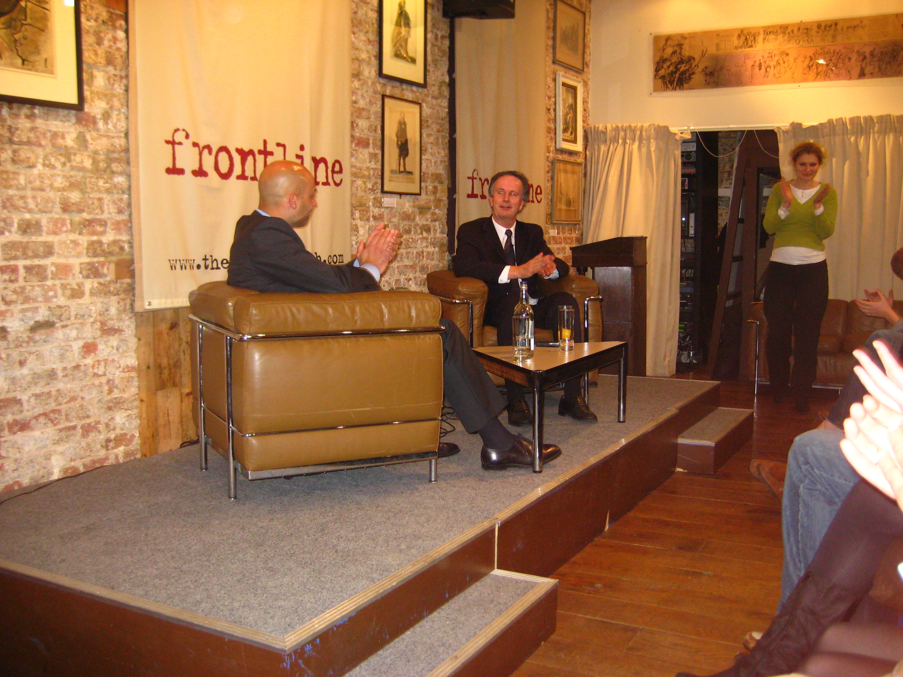 Meeting at the Frontline Club, London, with NATO spokeman James Appathurai